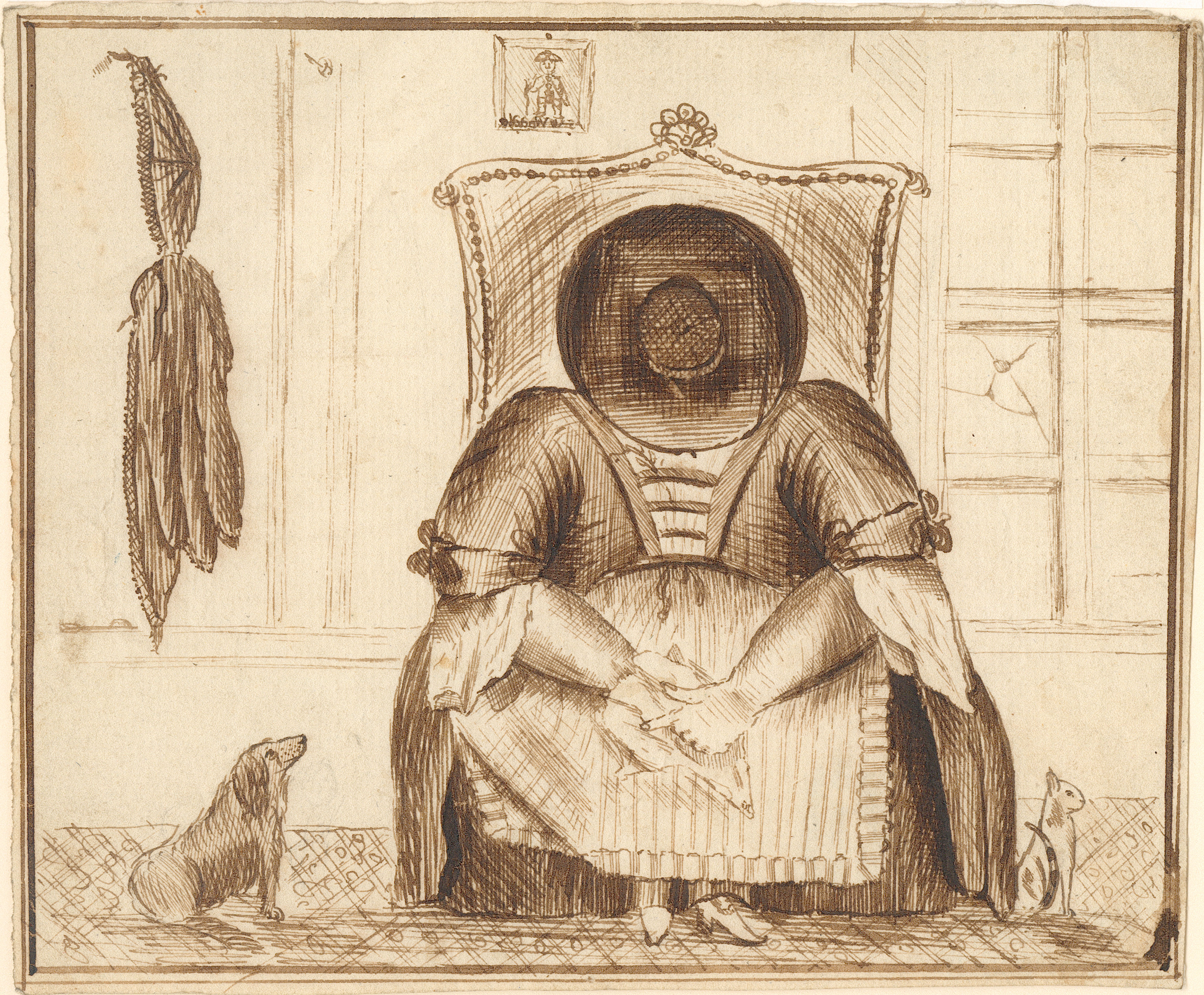 Taking a break This lovely ink drawing by engraver Henry Brocas shows the ample Mrs Waddle having a snooze in her armchair, flanked by her dog and cat. Mr S.W. Waddle is depicted in a portrait on the wall behind his wife. Henry Brocas was 16 when he produced this charming drawing. Size: 25.4 x 18.6 cm Date: 1778 NLI Ref.: 2087 (TX) 94